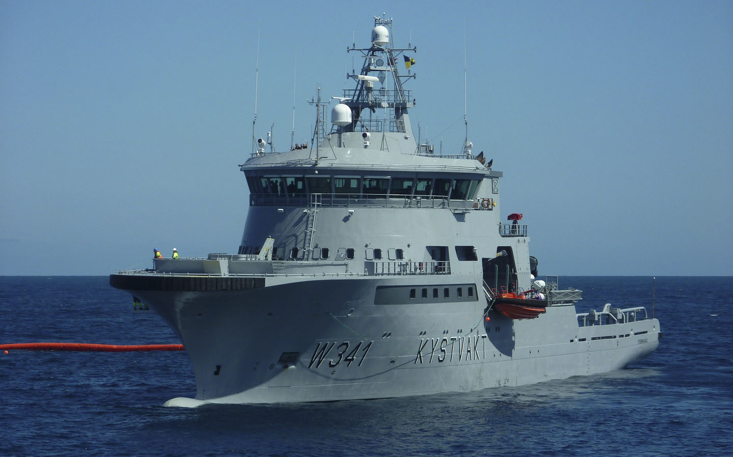 Norwegian Coast Guard ship KV Bergen